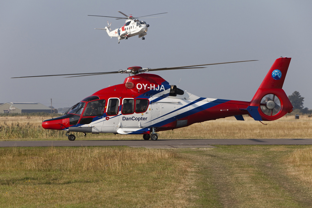 OY-HJA of DanCopter at Heldair Show Maritiem 2009.